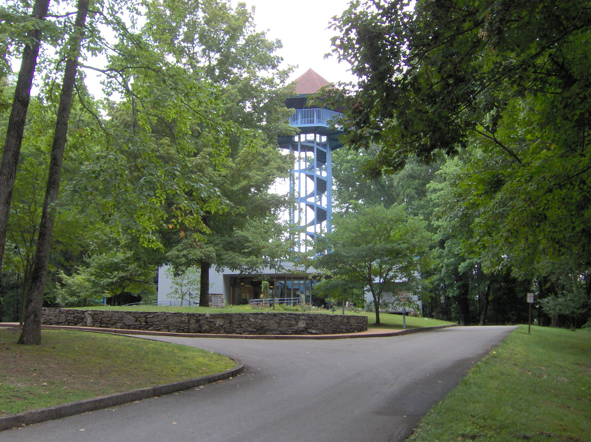 The park office and observation tower at Edgar Evins State Park in DeKalb County, Tennessee, in the southeastern United States.